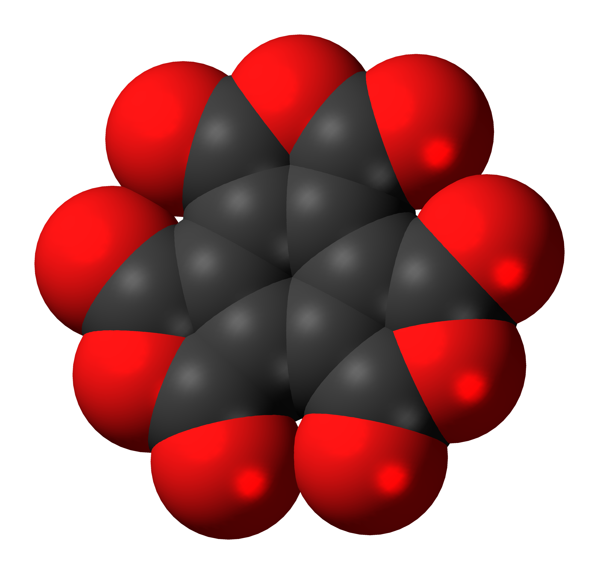 Space-filling model of the mellitic anhydride molecule, an oxocarbon and anhydride of mellitic acid. Colour code: Carbon, C: black Oxygen, O: red